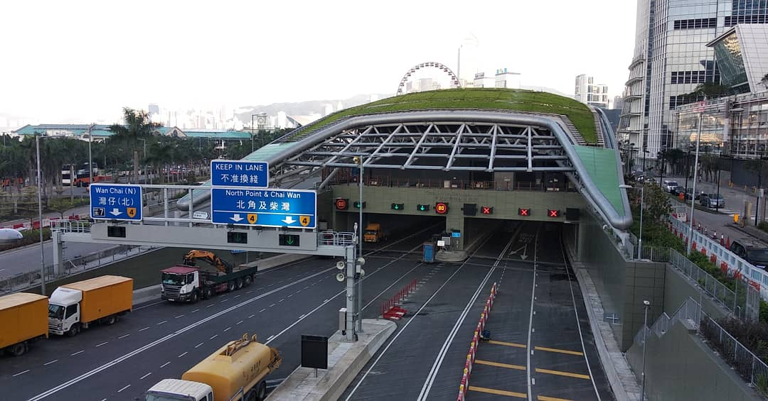 Central–Wan Chai Bypass Central Entrance in November, 2018.